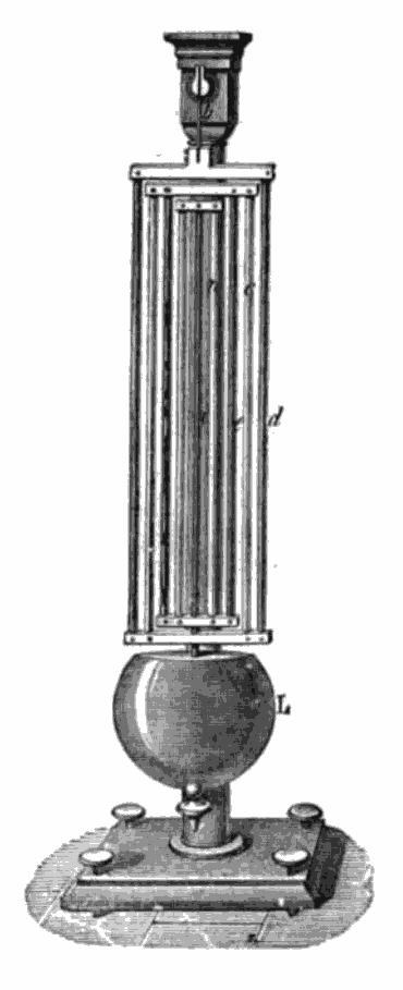 Drawing of a gridiron pendulum, a temperature compensated pendulum invented around 1725 by British clockmaker John Harrison. Ordinary pendulums' period of swing changes with temperature due to thermal expansion and contraction of the pendulum rod. The gridiron pendulum uses parallel rods of different metals to cancel out the length changes, so the length and period stay constant with temperature changes. This is a demonstration model mounted on a stand, for use in physics classes. Gridiron pendulums using brass and steel rods such as this one required 9 bars, while gridirons with zinc and steel bars only needed 5, because of the higher thermal expansion of zinc. The darker vertical rods such as (d) are steel, the lighter such as (e) are brass. Alterations to image: removed figure number.